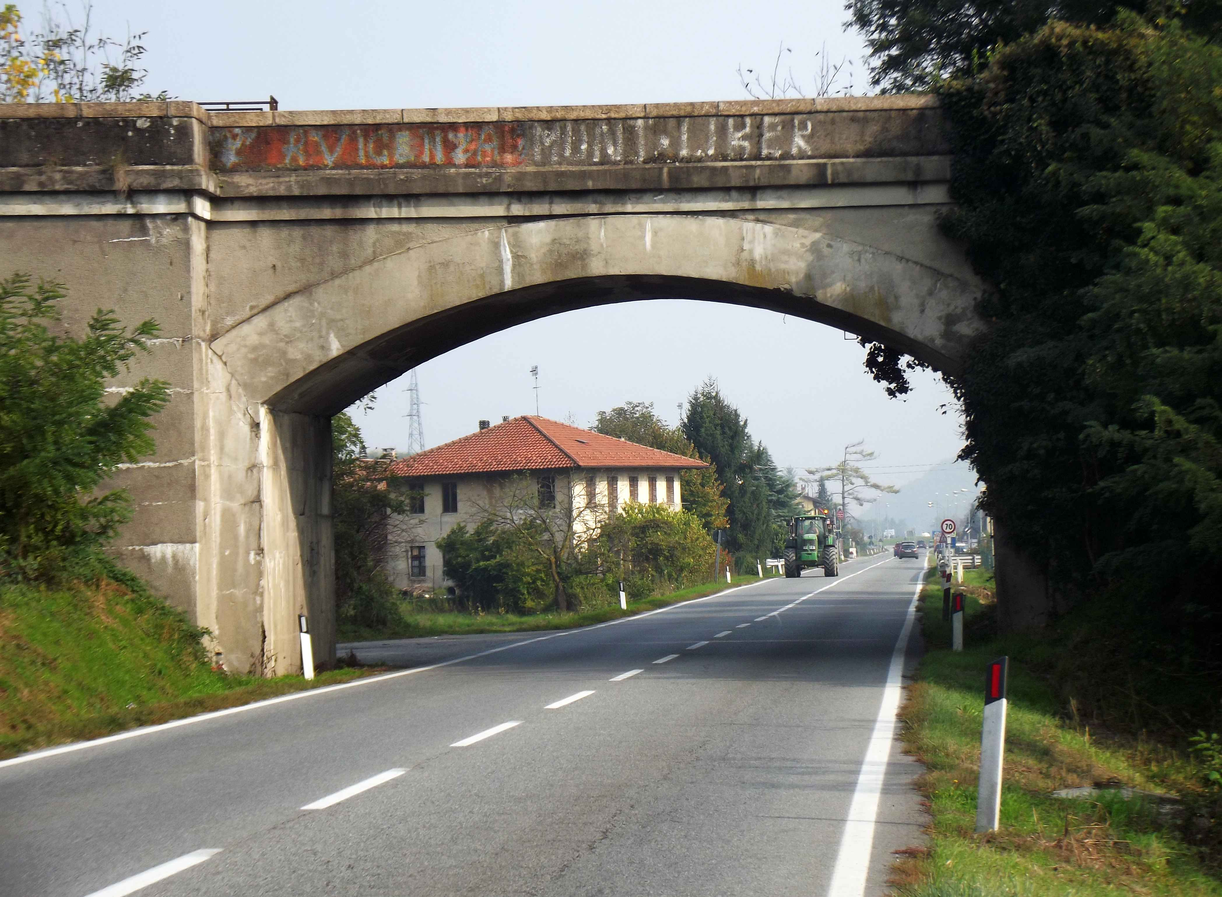 Former national road n. 590 della Val Cerrina in San Sebastiano da Po (TO, Italy) and bridge of the